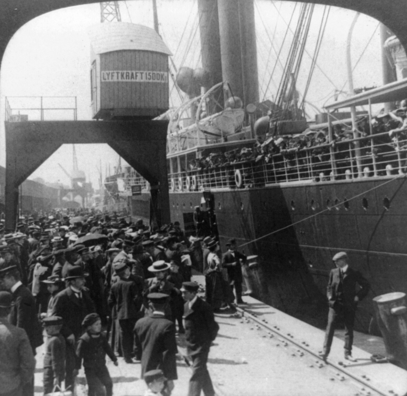 "Farewell to home." Emigrants bound for England and America on steamer at Göteborg, Sweden.